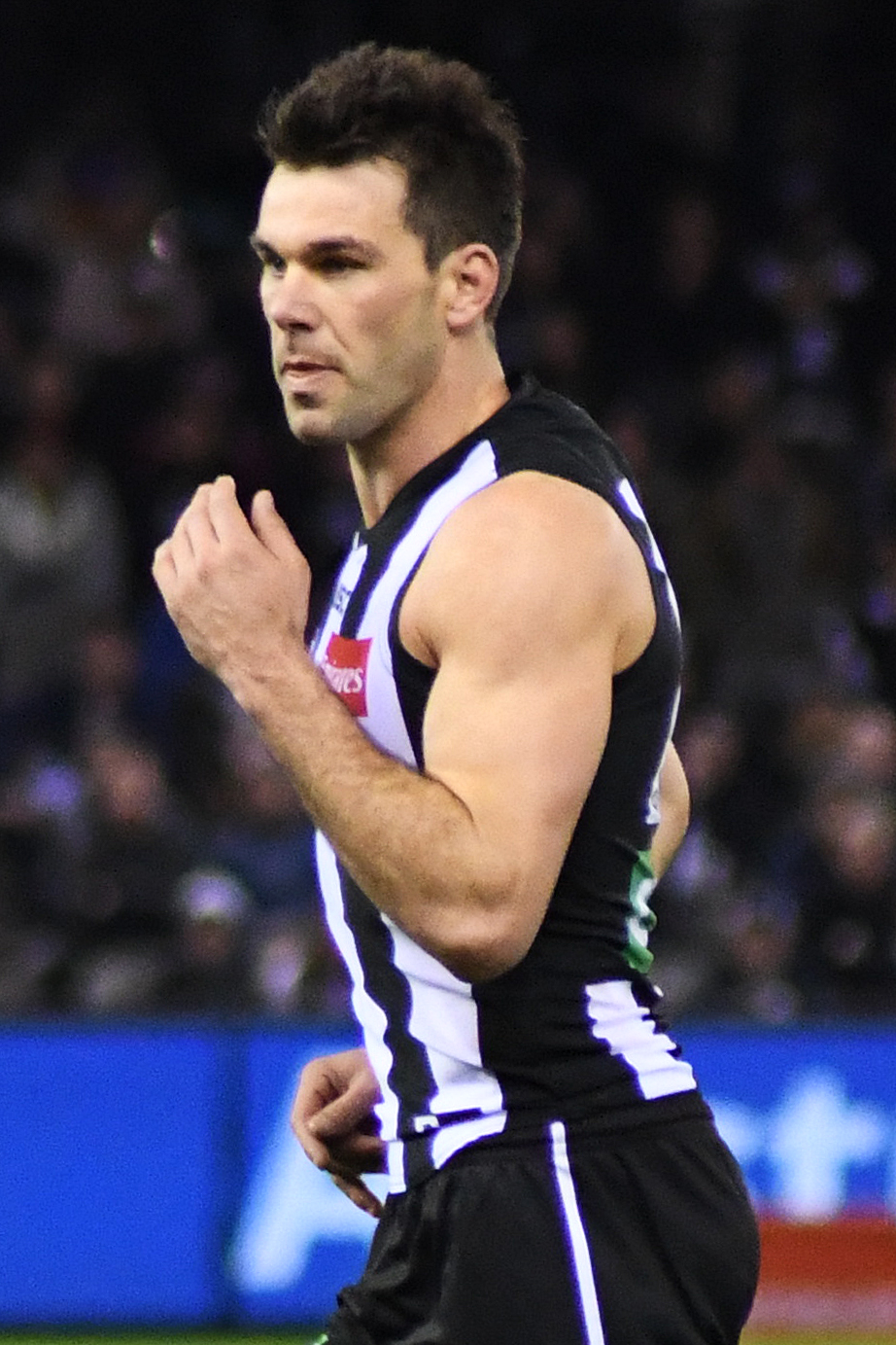 Levi Greenwood of Collingwood during the 2018 AFL round 21 match between Collingwood and Brisbane at Etihad Stadium on Saturday, 11 August 2018 in Melbourne, Victoria.